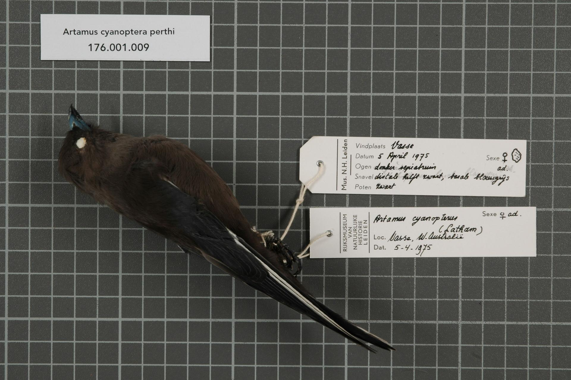 Artamus cyanoptera perthi (Mathews, 1915